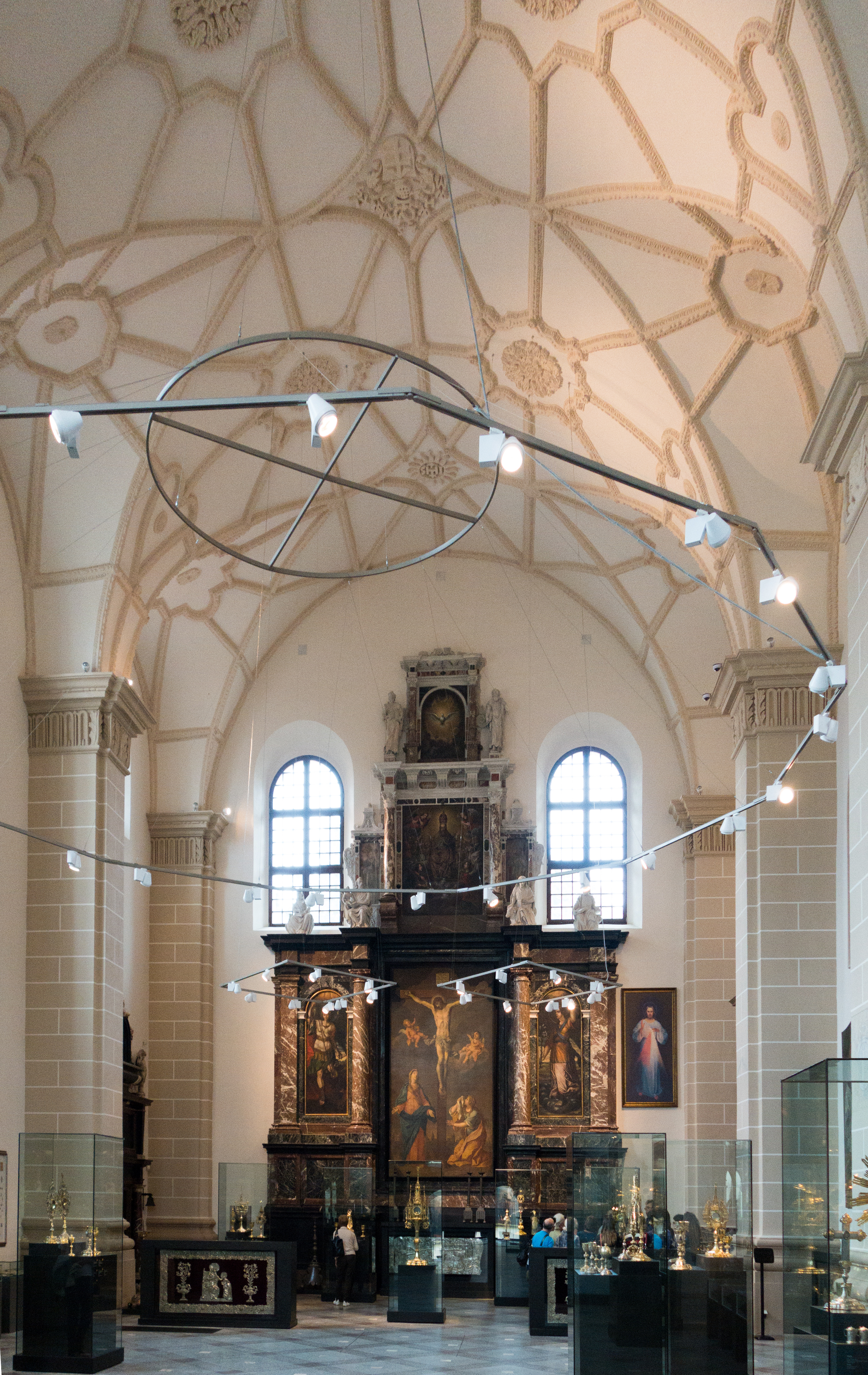 The Church and the Convent of St. Archangel Michael in Vilnius - the Church Heritage Museum